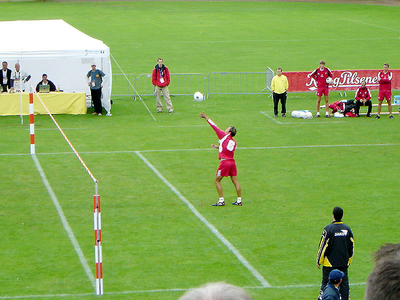 Swiss fistballer Christoph Zehnde prepares to serve the ball at the World Games 2005 in Duisburg